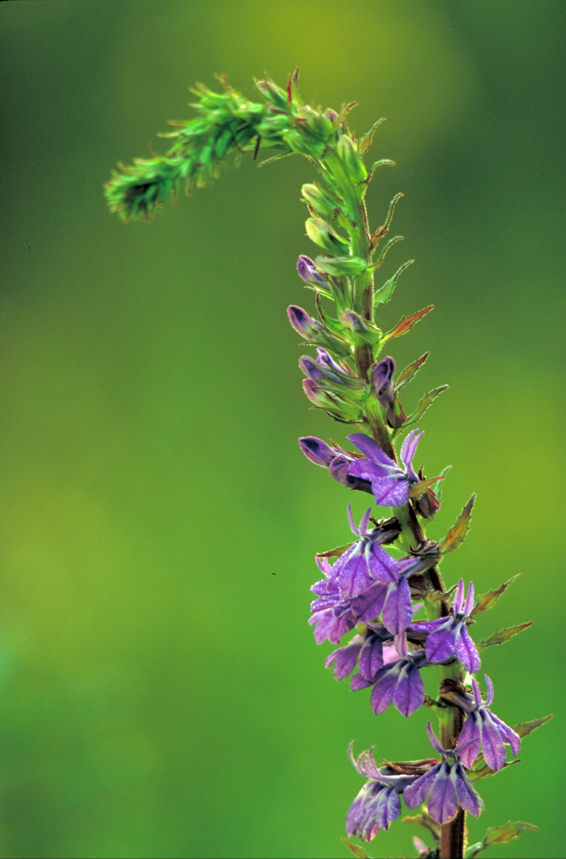 Image title: Downy lobelia flower Image from Public domain images website